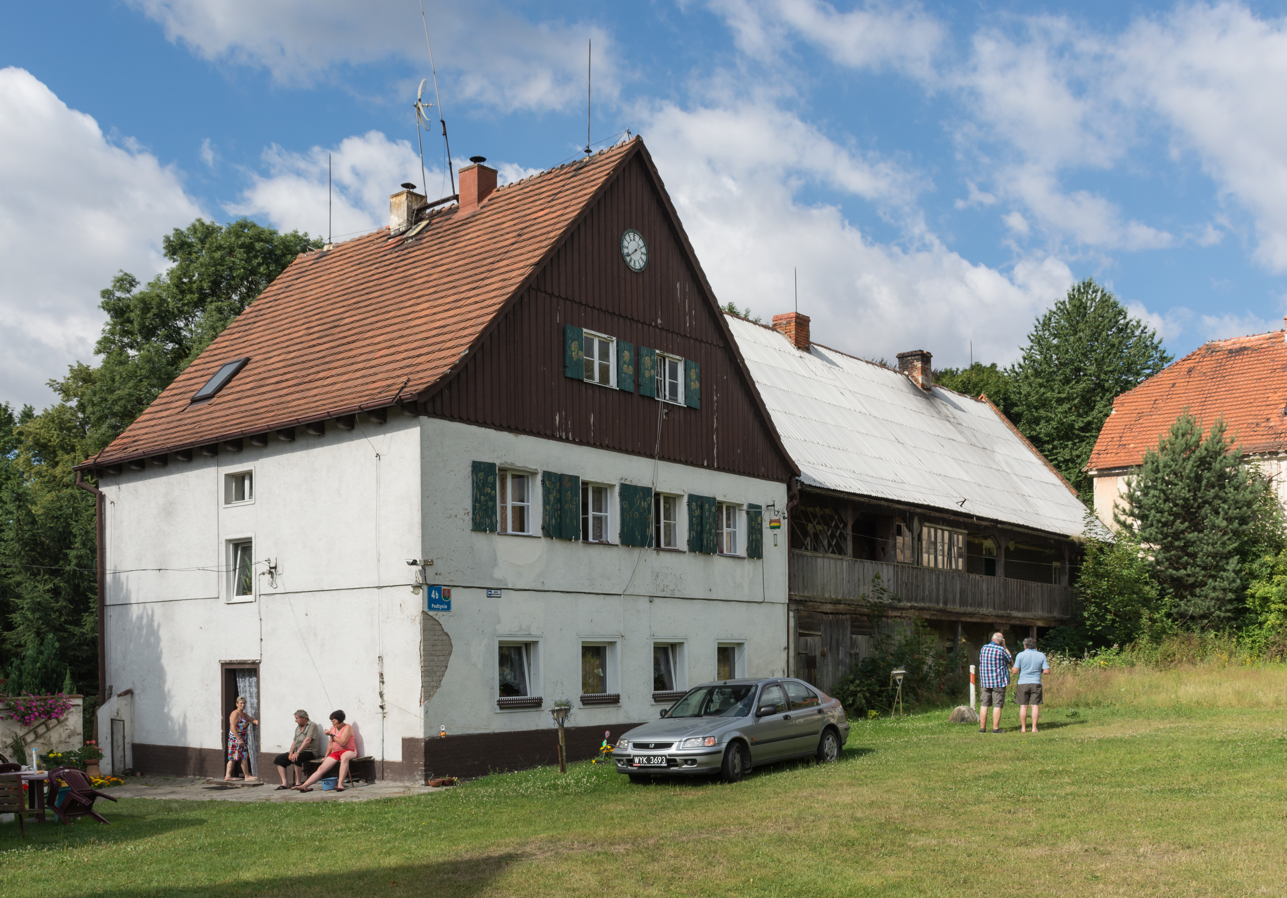 Folwark in Podtynie, house of servants